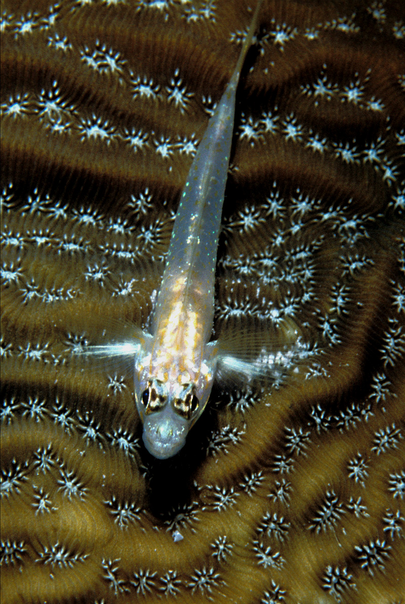 A flashy goby rests on sheet coral, Curaçao, Netherlands Antiles For those of you who care about such things... this is a Bridled Goby (Coryphopterus glaucofraenum), and the coral is Graham's Sheet Coral (Agaricia grahamae) While the goby was very concerned about the looming 105mm lens, it stayed put for this 1:2 macro. f/16